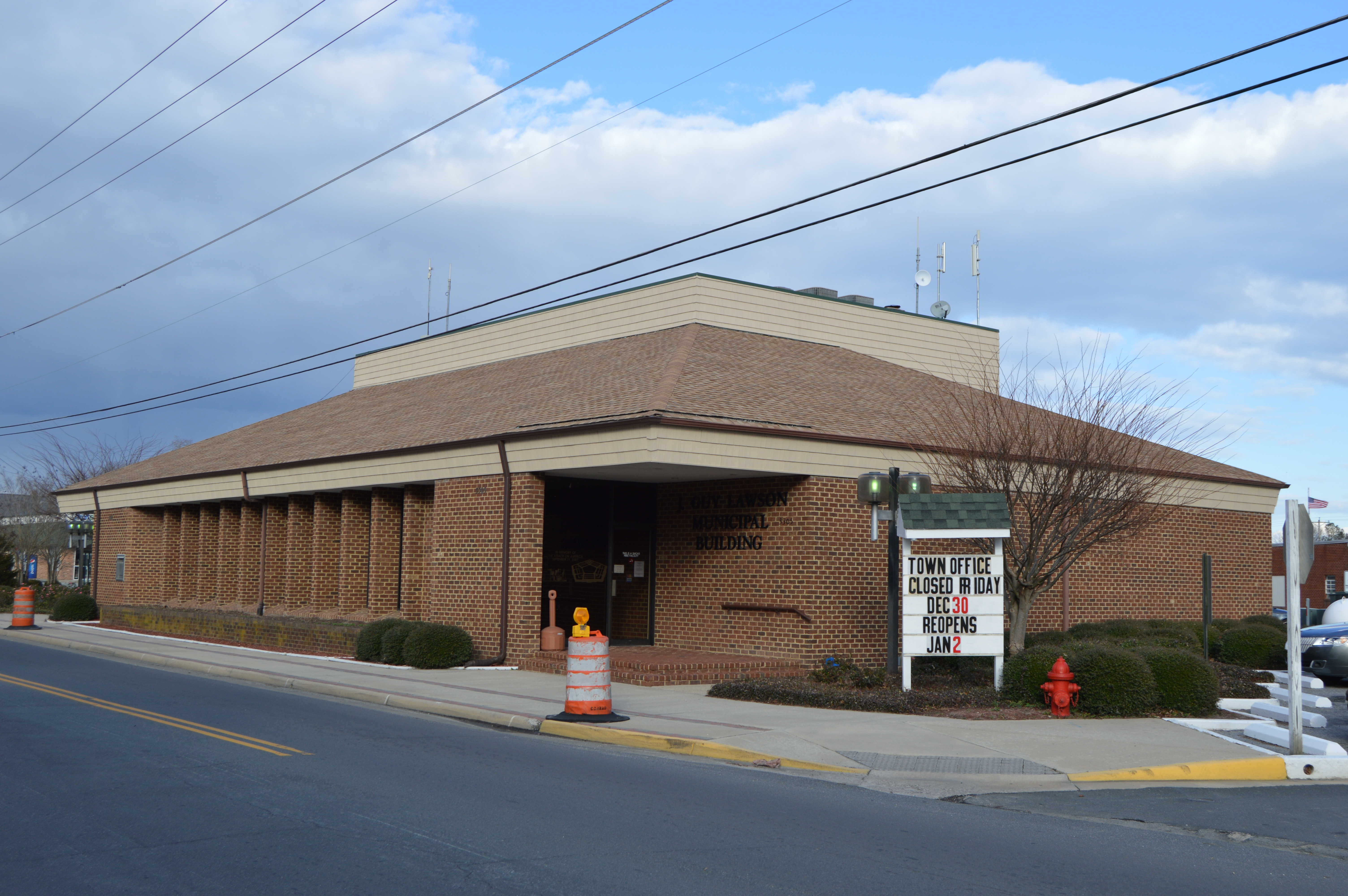 Front and southern side of the Exmore town hall, located at 3305 Main Street in Exmore, Virginia, United States.